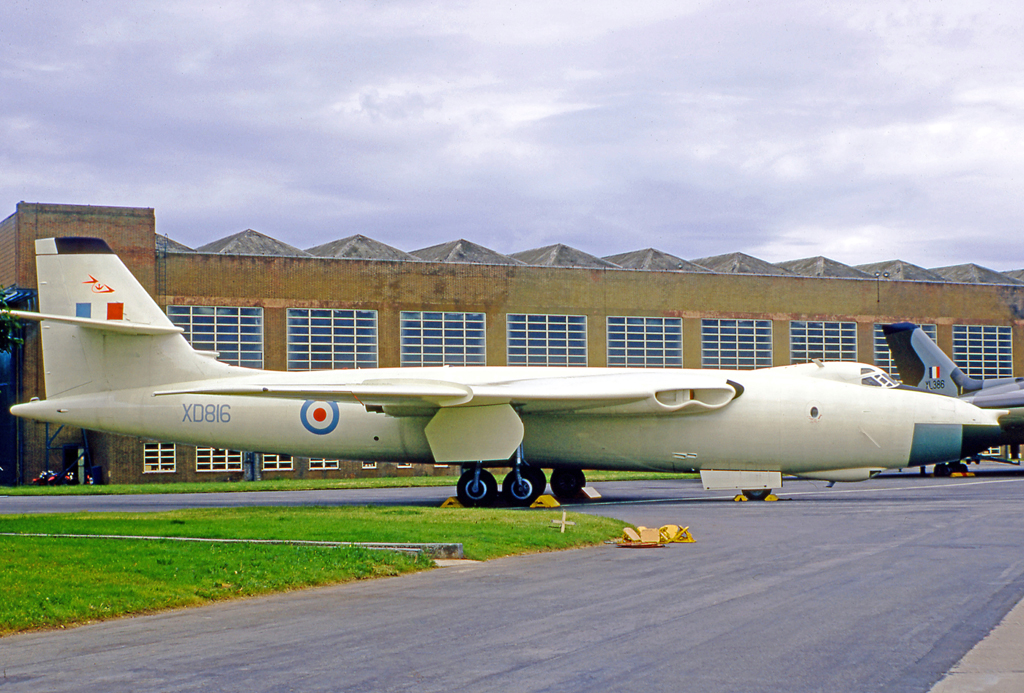 Vickers Valiant BK.1 XD816 wearing the fin markings of No. 214 Squadron RAF at RAF Abingdon in 1968